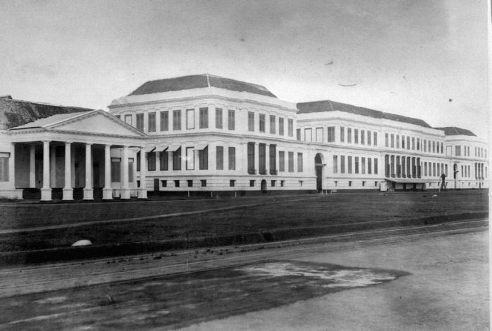 The Supreme Court and the Palace of Daendels on Waterloo Square, Batavia